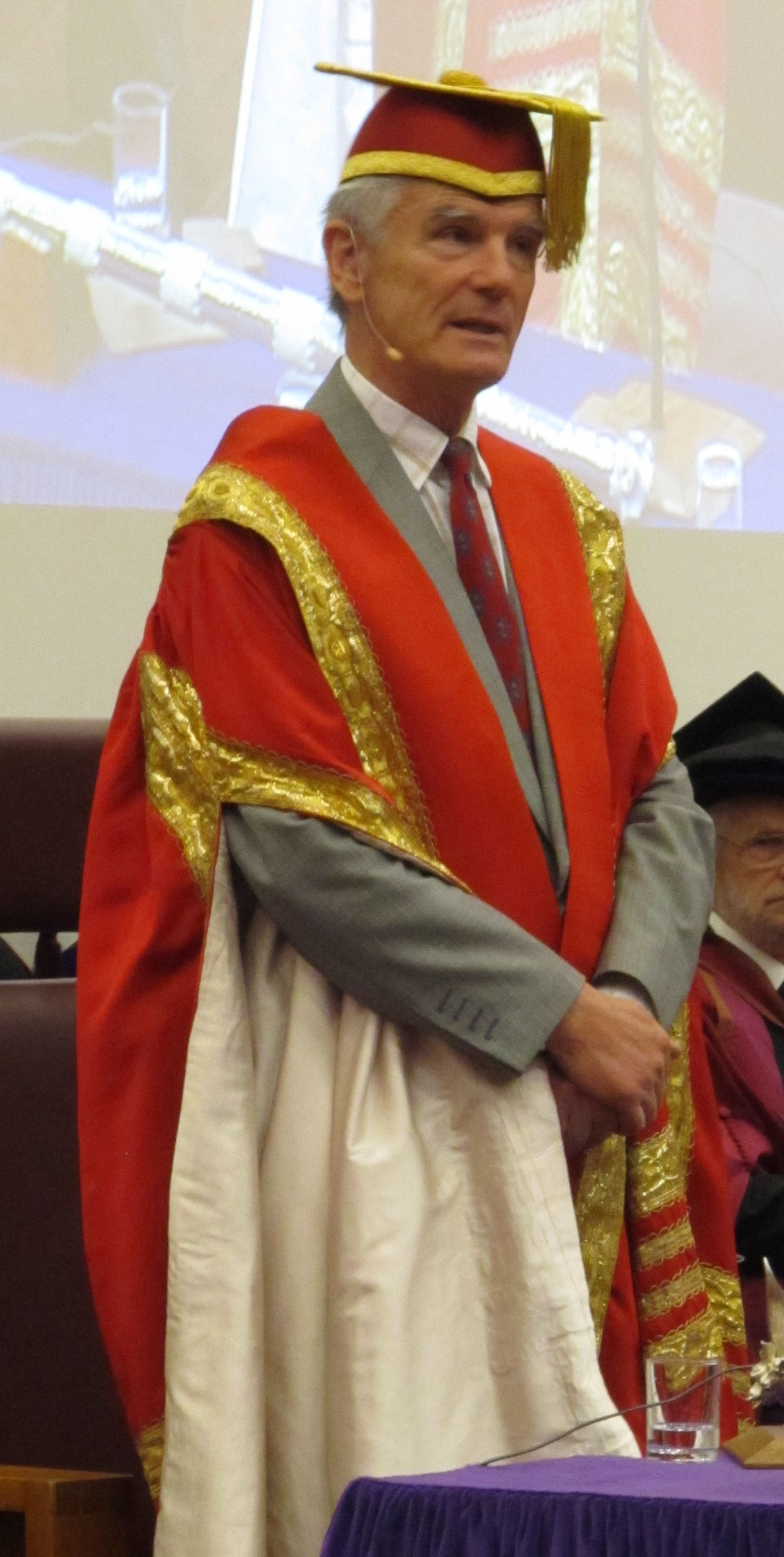 Andrew Phillips, Baron Phillips of Sudbury, presiding as Chancellor over the 2012 University of Essex Graduation Ceremony.